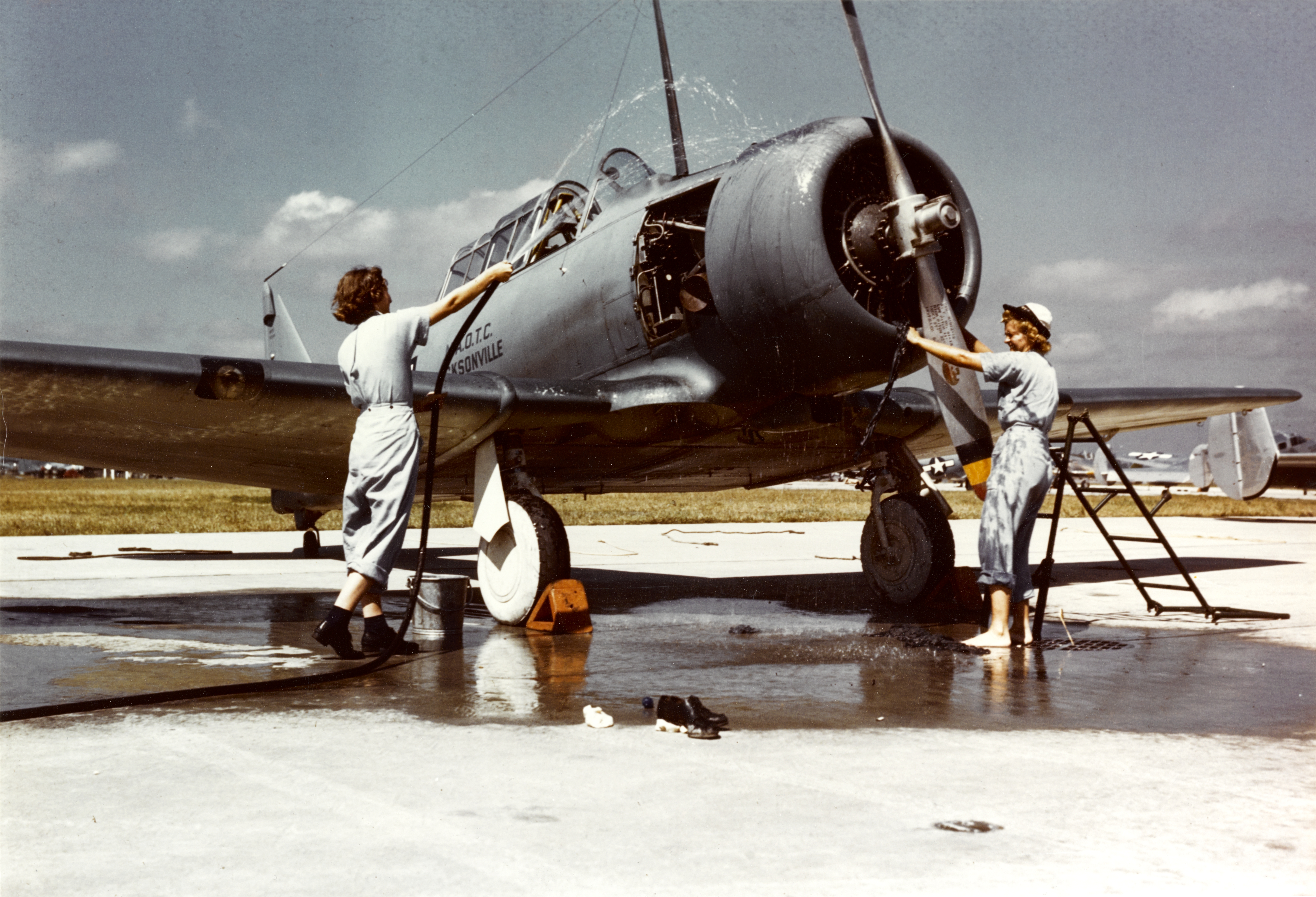 Two U.S. Navy WAVES washing a North American SNJ Texan training plane at Naval Air Station Jacksonville, Florida (USA), circa 1943-1945. This aircraft was assigned to the Naval Air Operational Training Command. Note Beech SNB aircraft in the background.